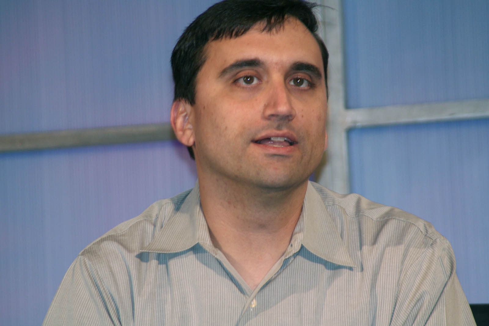 Mark Fletcher, founder of Bloglines and now a vice president at AskJeeves.